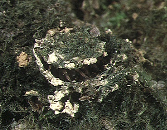 burrow of Heptathela yanbaruensis (previously Heptathela kimurai yanbaruensis) from Okinawa.